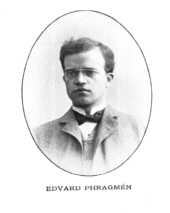 Portrait of Edvard Phragmen, mathematician